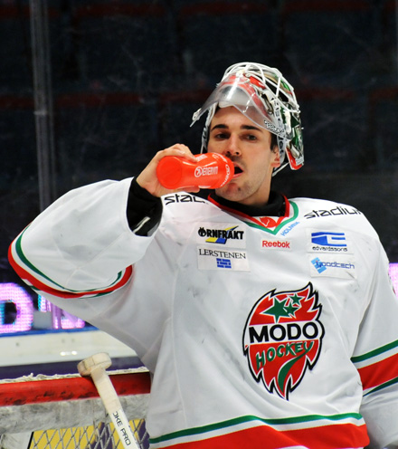 Ice hockey goaltender Bernhard Starkbaum of MODO Hockey during a game in February 2013